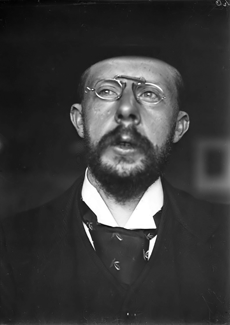 Photograph of George Hendrik Breitner, by Willem Witsen.